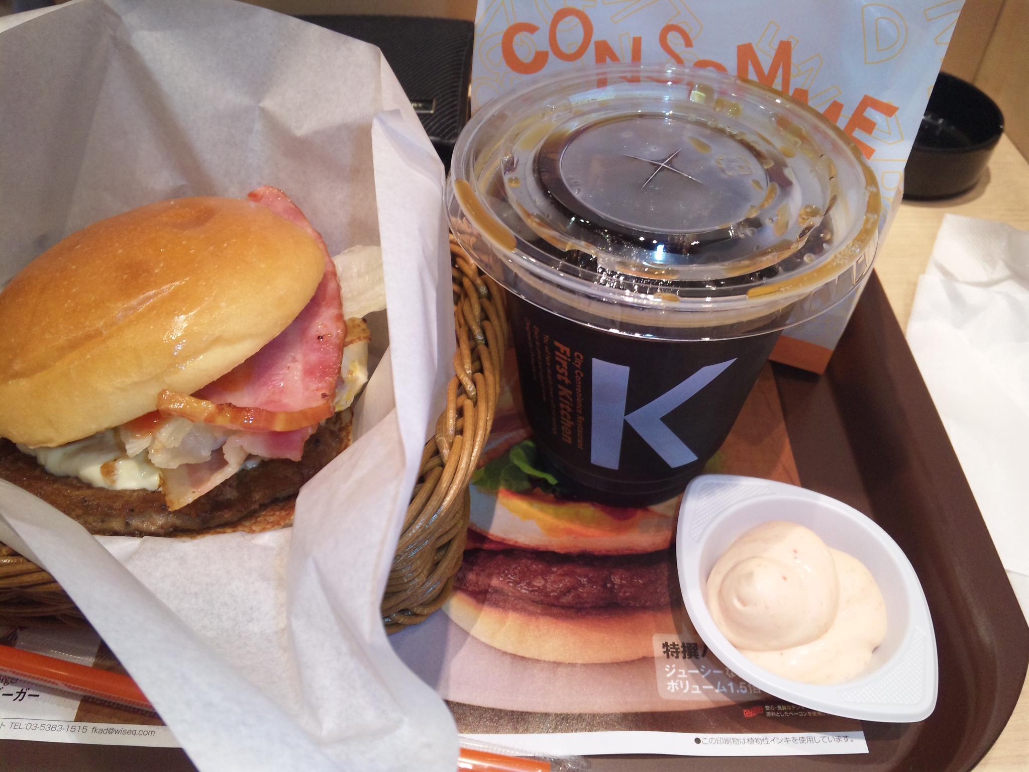 BaconEgg Burger by First Kichen